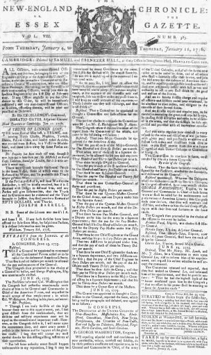 The New England Chronicle, Jan. 4, 1776 (Cambridge, Massachusetts) Further information: American Antiquarian Society. Catalog.